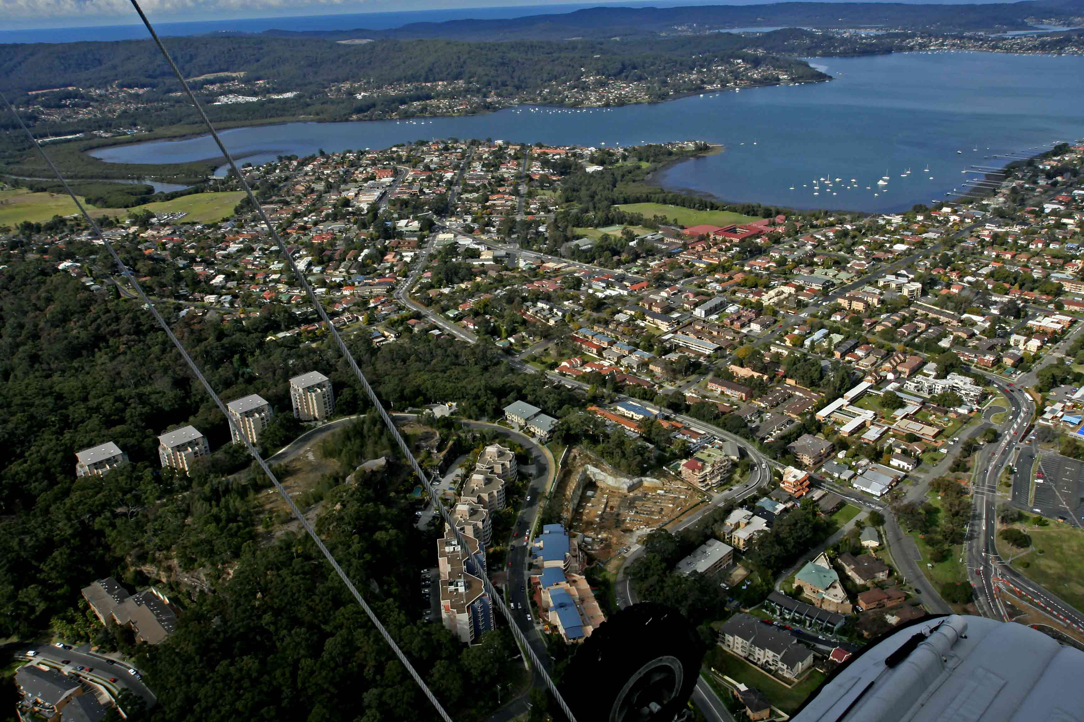 East Gosford from the air